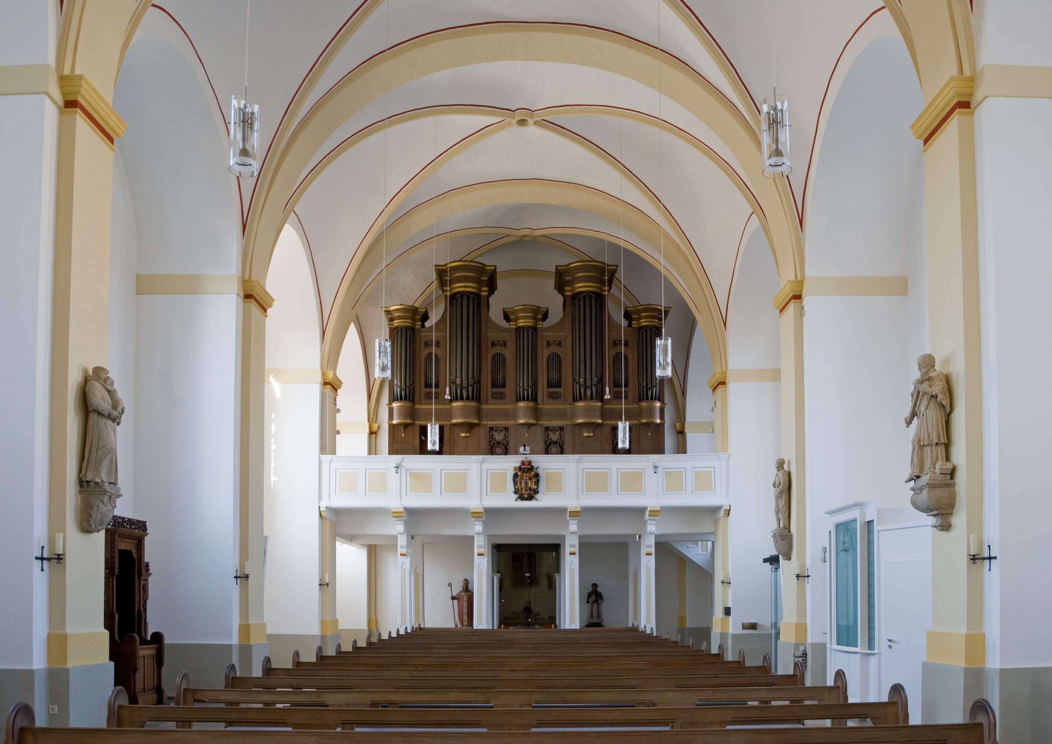 Steinfurt (North Rhine-Westphalia, Germany) – district Burgsteinfurt – Catholic parish church Saint John of Nepomuk – view trough the nave to the pipe organ This image shows a heritage building in Germany, located in the North Rhine-Westphalian city Steinfurt (no. 9). This photograph was taken with a Nikon D3000